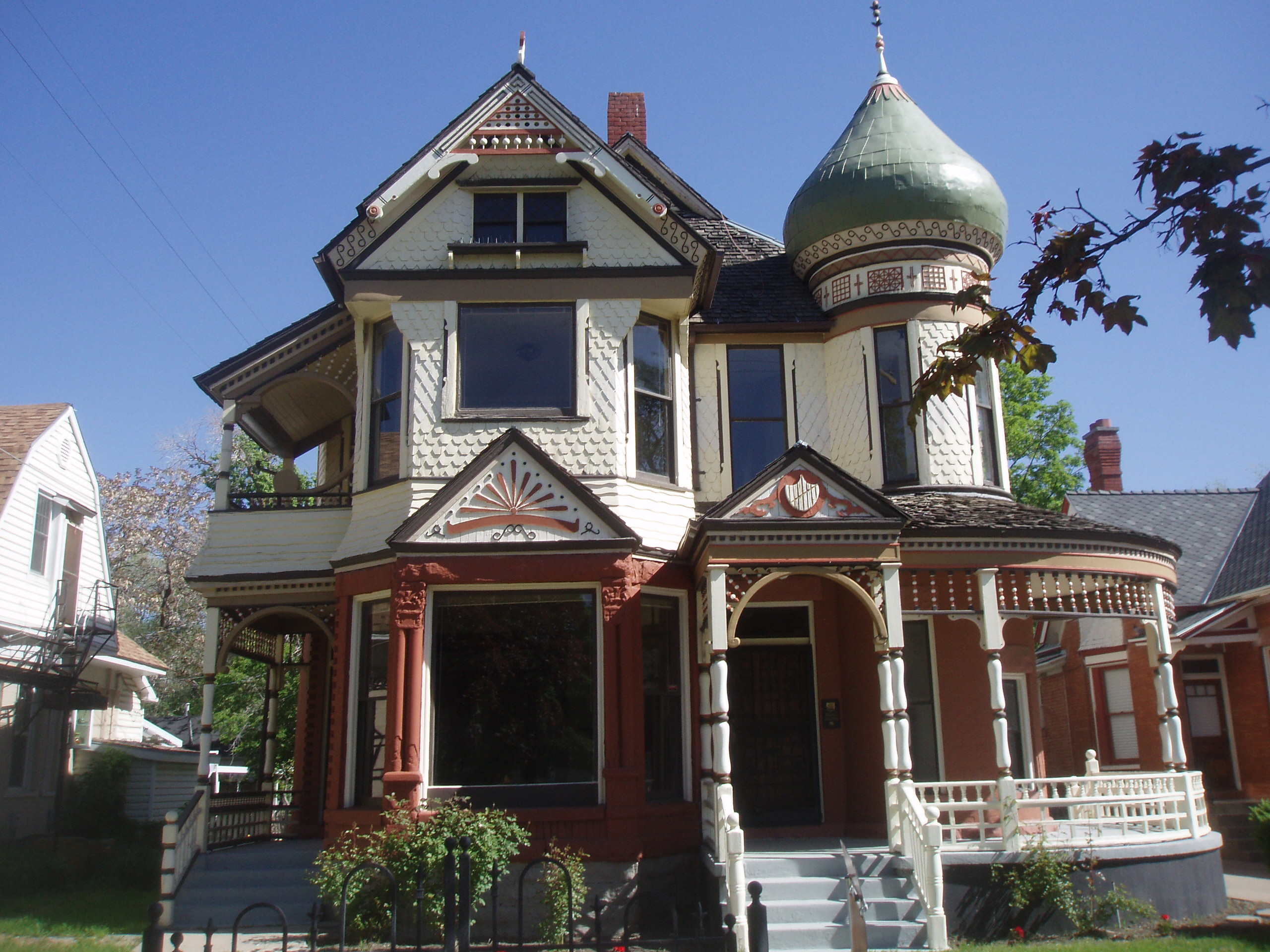 The Andrew J. Warner House, a historic home in Ogden, Utah, United States.